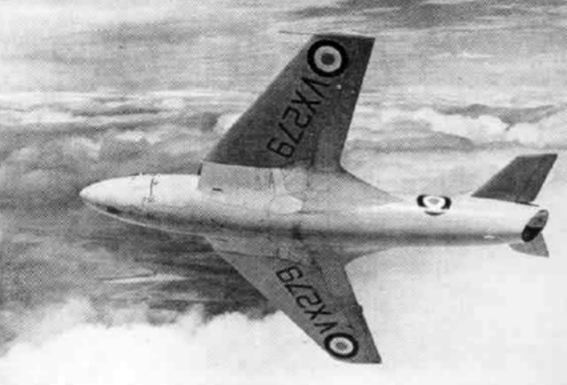 The sole Hawker P.1081 (s/n VX279) in flight. The P.1081 originated from a proposal to meet a specification put out by the Australian government. The first flight of the P.1081 took place on 19 June 1950 but, in November of that year, the Australian project was discontinued. The aircraft was handed over to the Royal Aircraft Establishment (RAE). Its swept tail increased the Mach number above that of the P.1052 into the Mach 0.9-0.95 region, providing valuable information for the Hawker Hunter fighter. The sole P.1081 was lost with its pilot, Squadron Leader T.S. "Wimpy" Wade, in a crash on 3 April 1951.